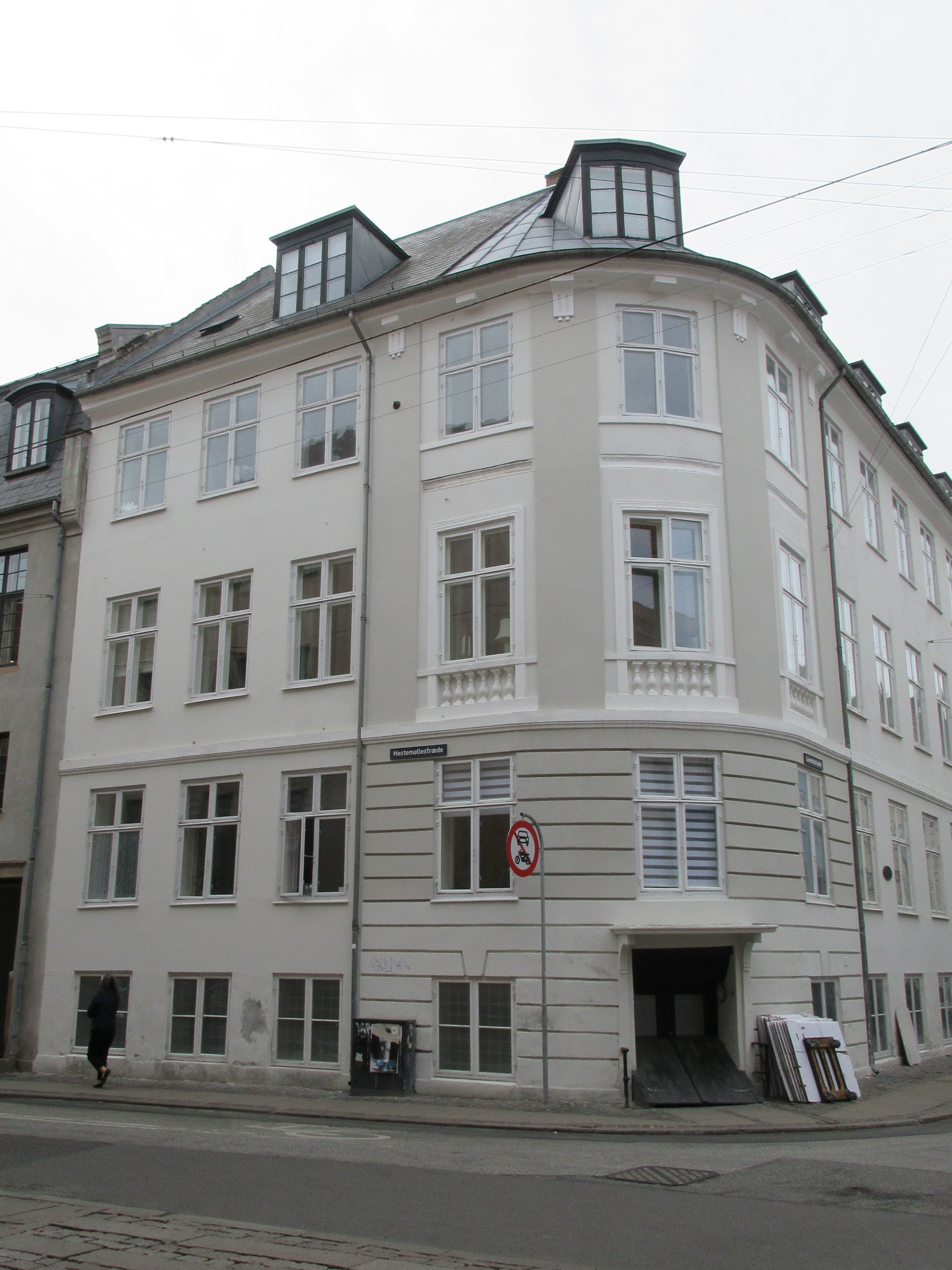 Lavendelstræde 1 in Copenhagen, Denmark